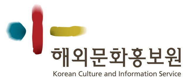 Logo of the Korean Culture and Information Service